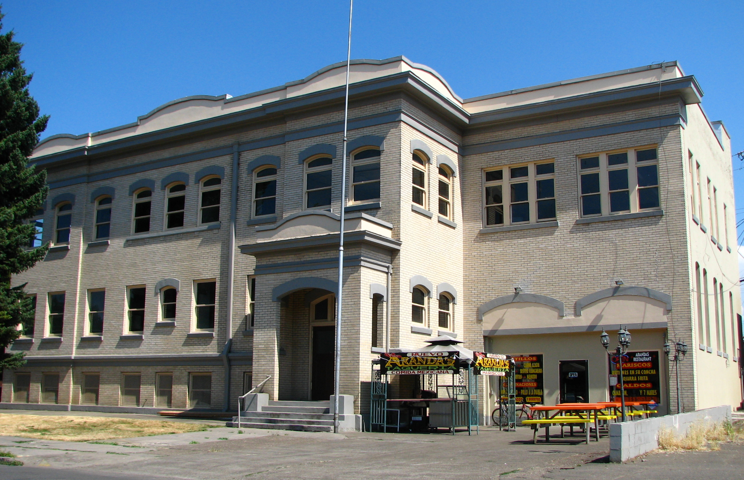 The historic Old Woodburn City Hall (built 1914), located at 550 North 1st Street in Woodburn, Oregon, United States, is listed on the US National Register of Historic Places.